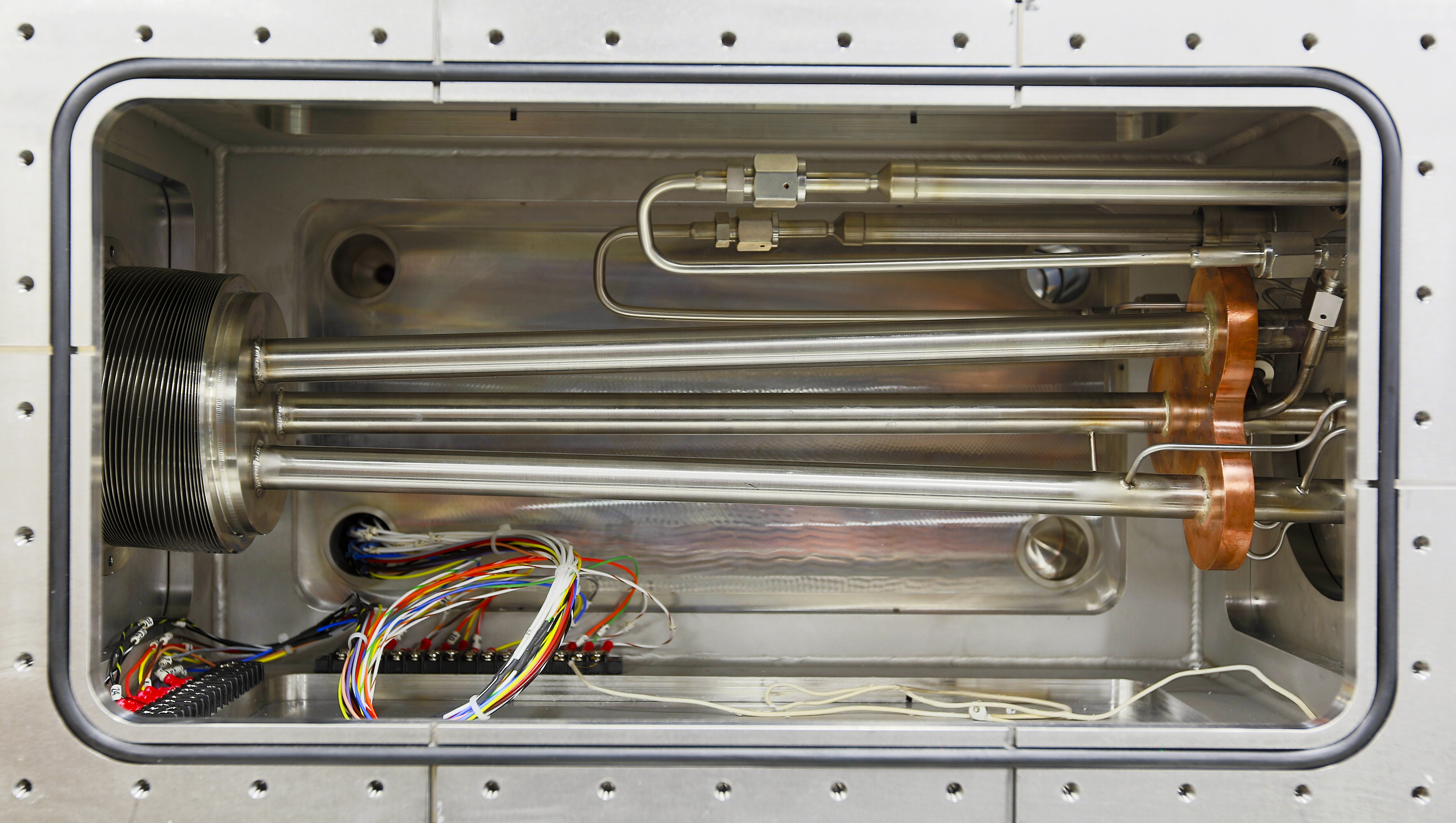 A prototype 3-barrel shattered pellet injector for ITER with 16 mm barrels is under development at Oak Ridge National Laboratory. Shown here installed in vacuum chamber.